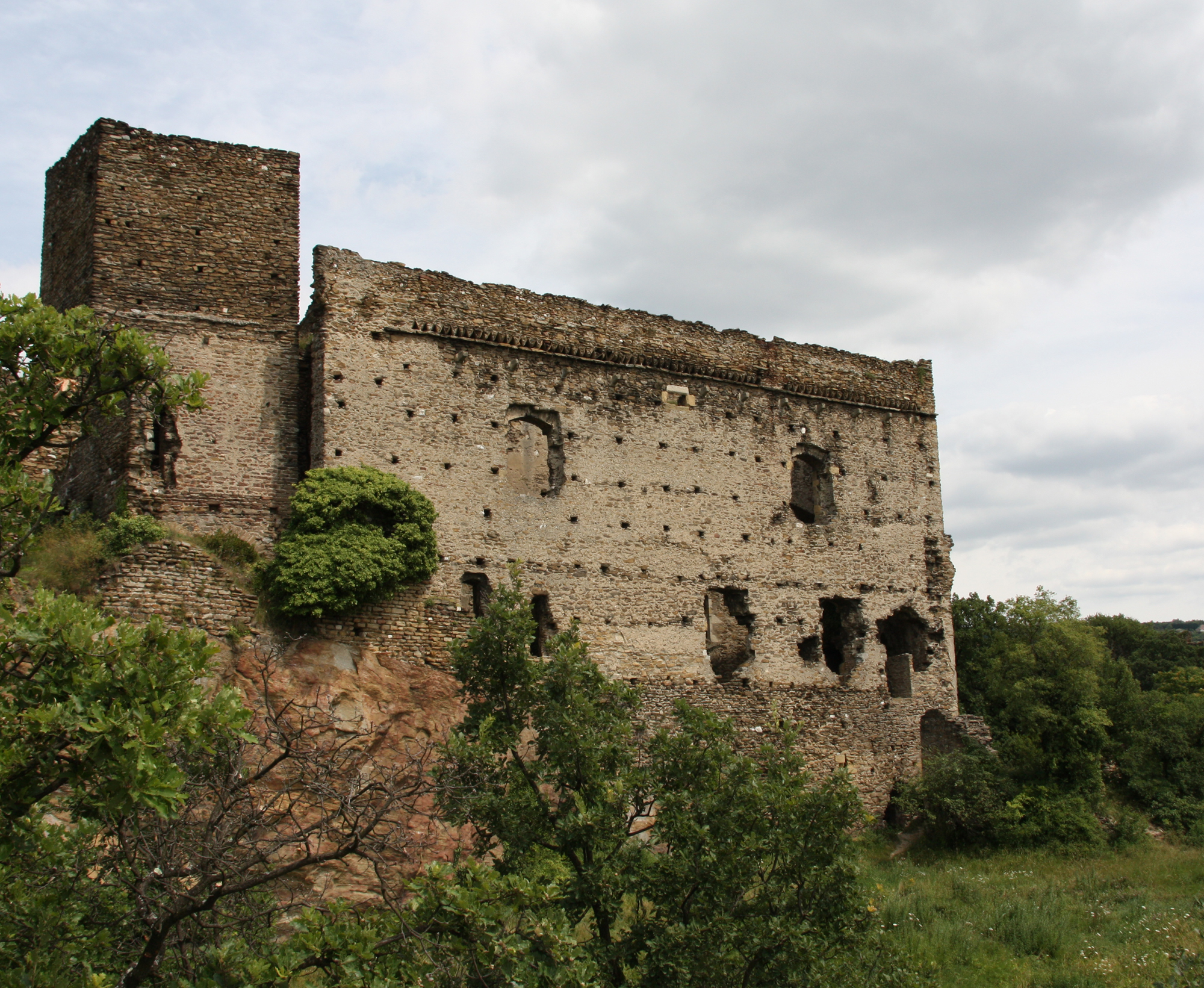 Seyssuel's castle